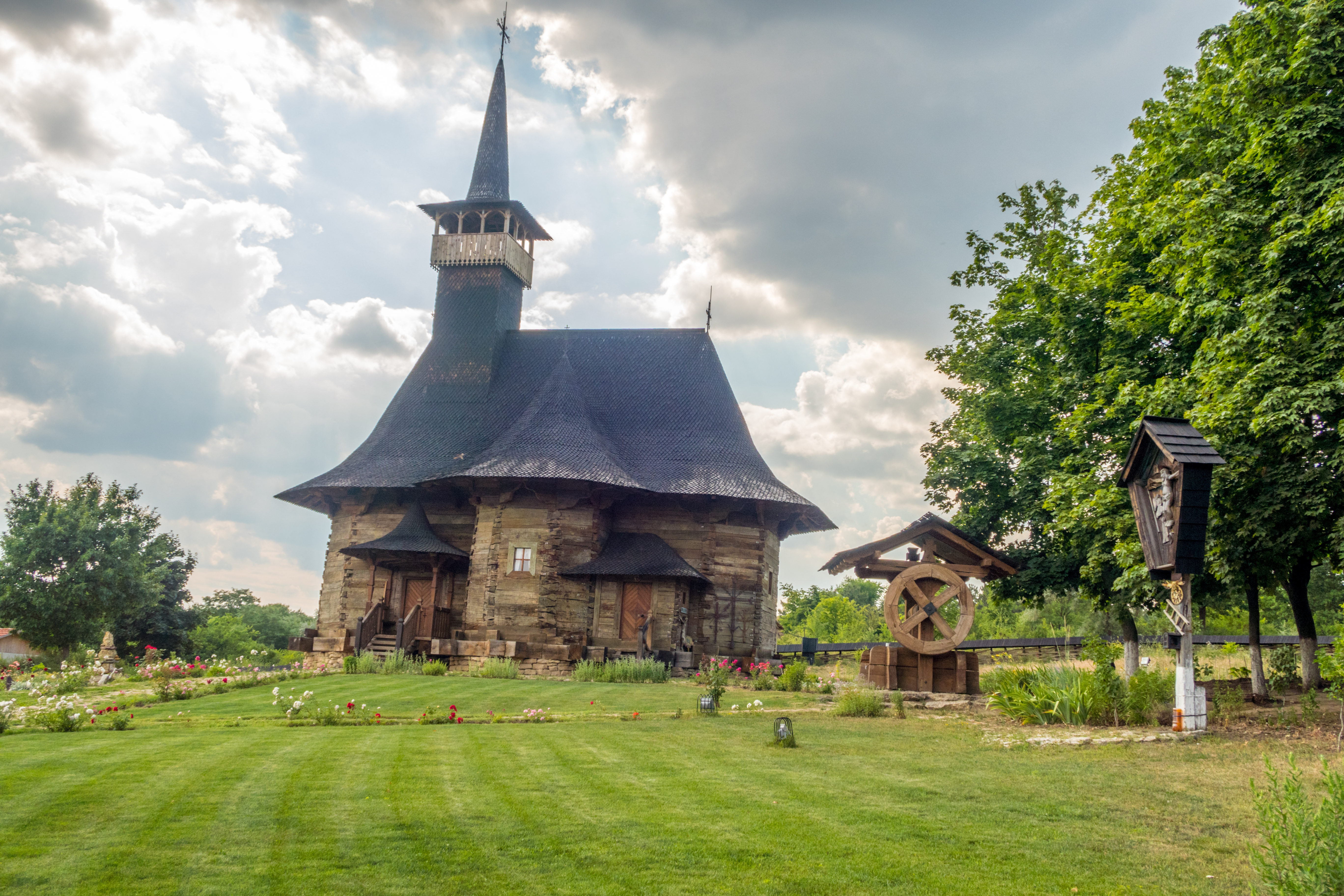 Image of the museal complex of "Wooden church of Hirișeni", located in the Village museum of Chișinău.